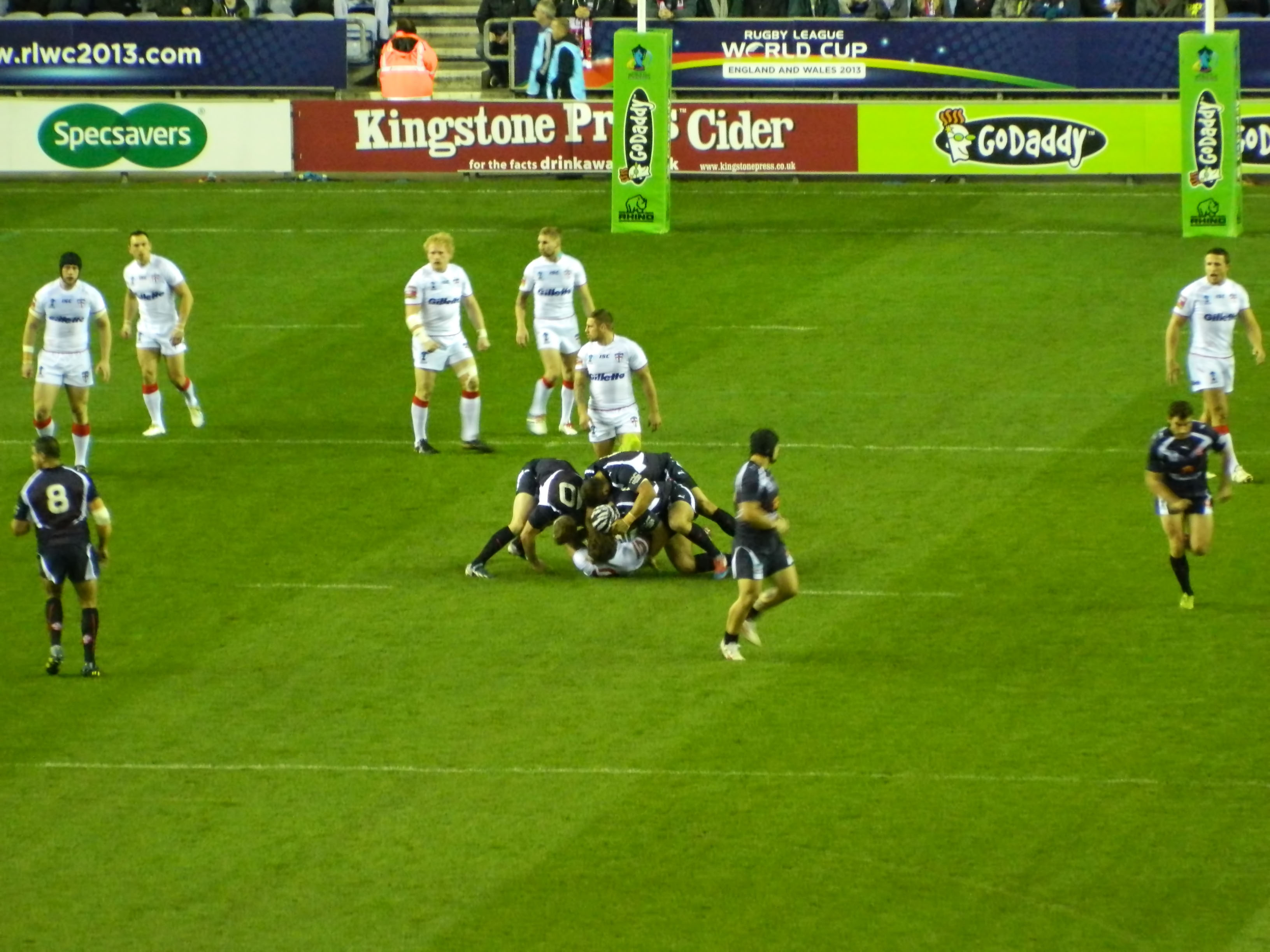 2013 Rugby League World Cup quarterfinal between England and France at DW Stadium, Wigan.